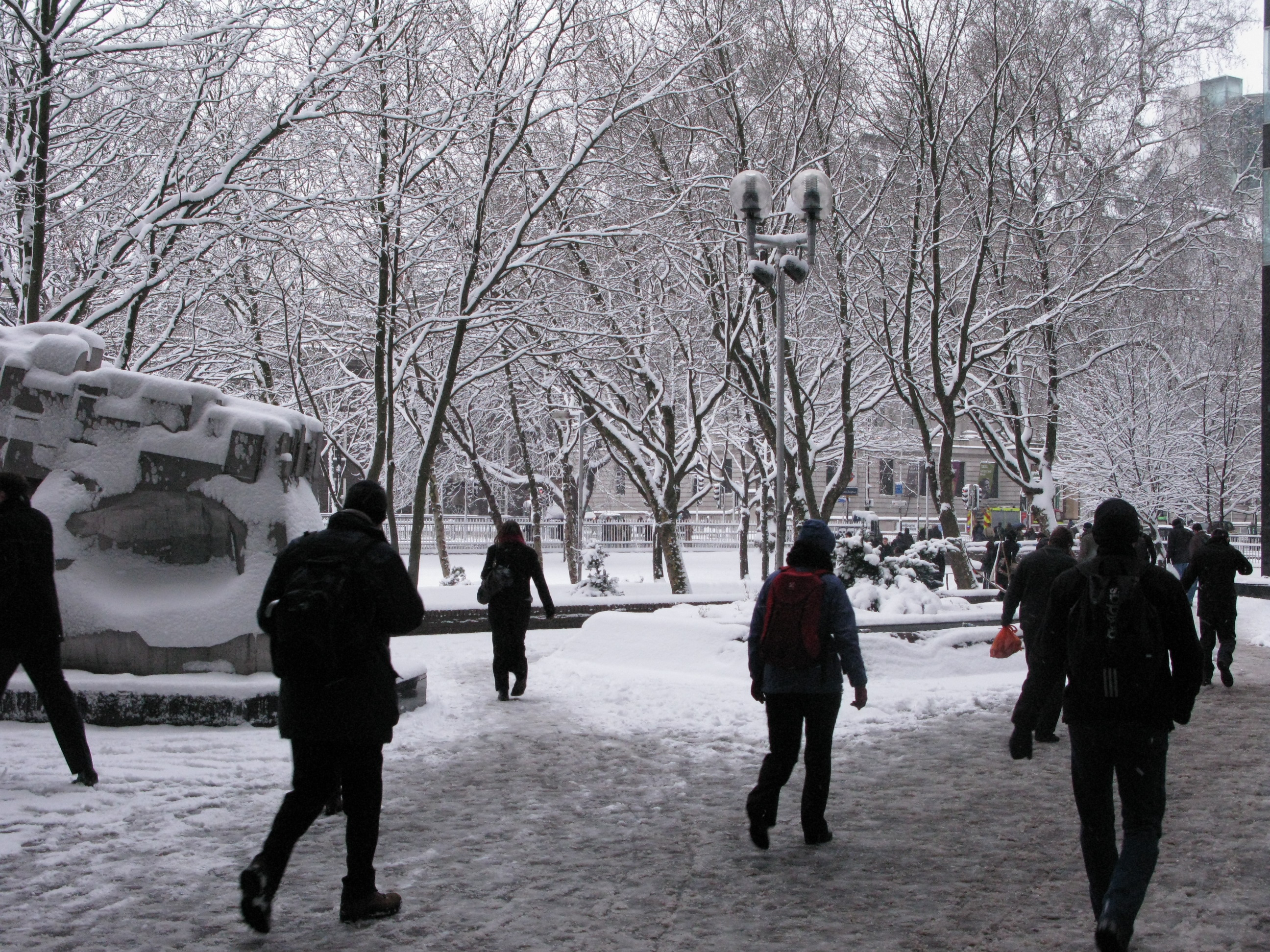 Heavy snowfall in London: commuters leaving Euston Station, about 8.30am. Many trains and most London Underground lines were severely disrupted.